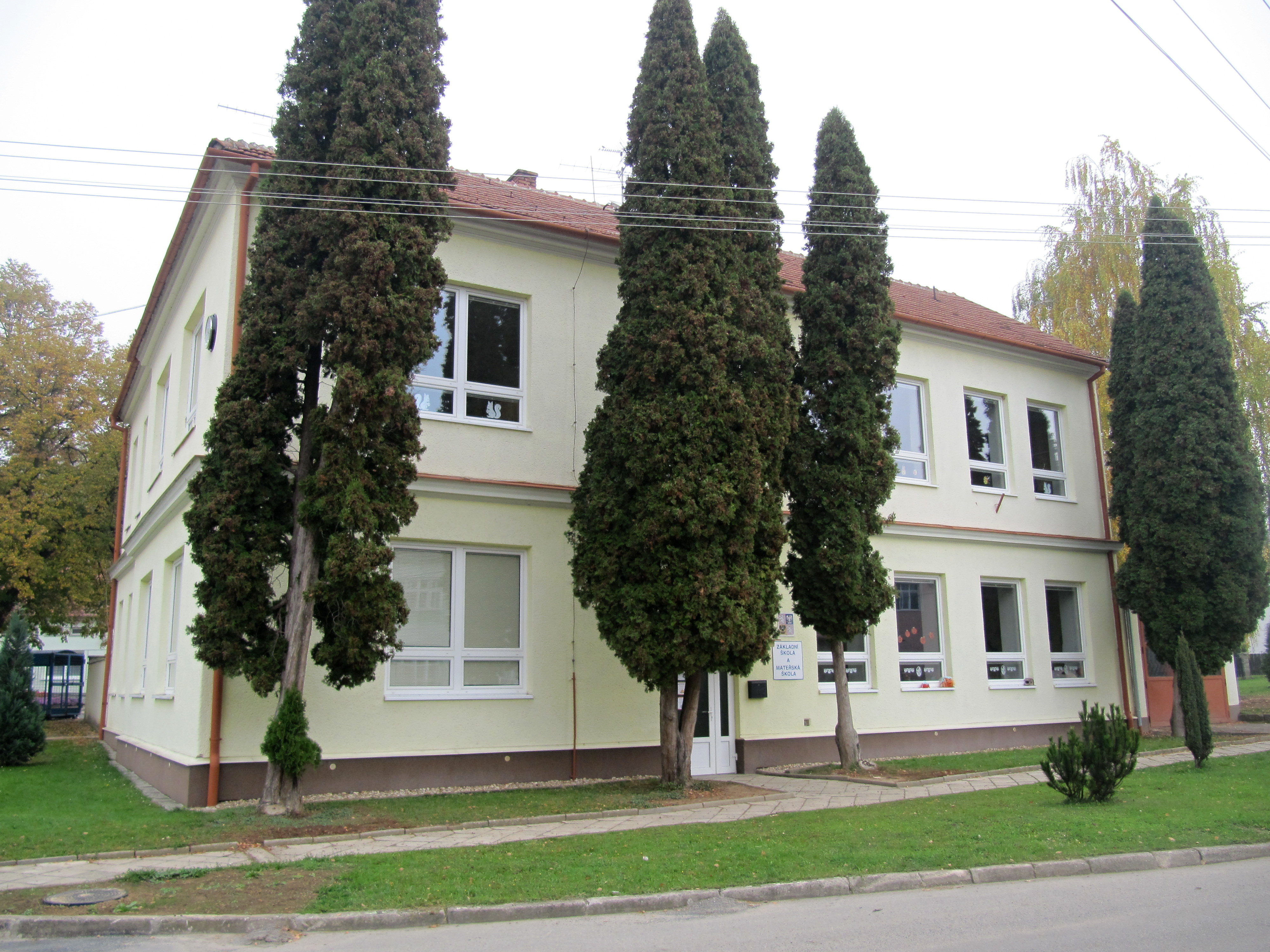 Rašovice in Vyškov District, Czech Republic. Bus stop on the village green.